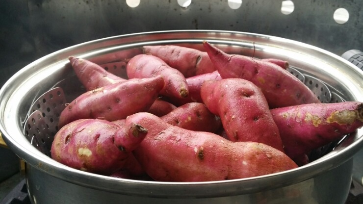 steaming bam-goguma (chestnut sweet potatoes)